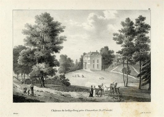 Heiligenberg (Holy mountain) in Leusden in the Netherlands around 1830